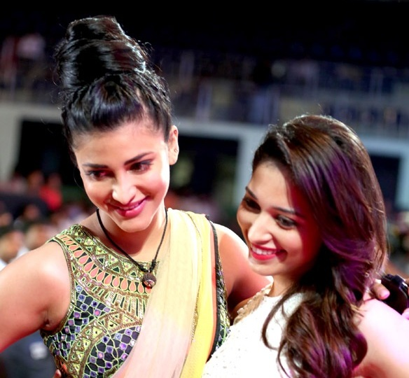 Actresses Shruti Haasan and Tamannaah at the 61st Filmfare Awards South 2013 held at Chennai in Nehru Stadium. Cropped from the original